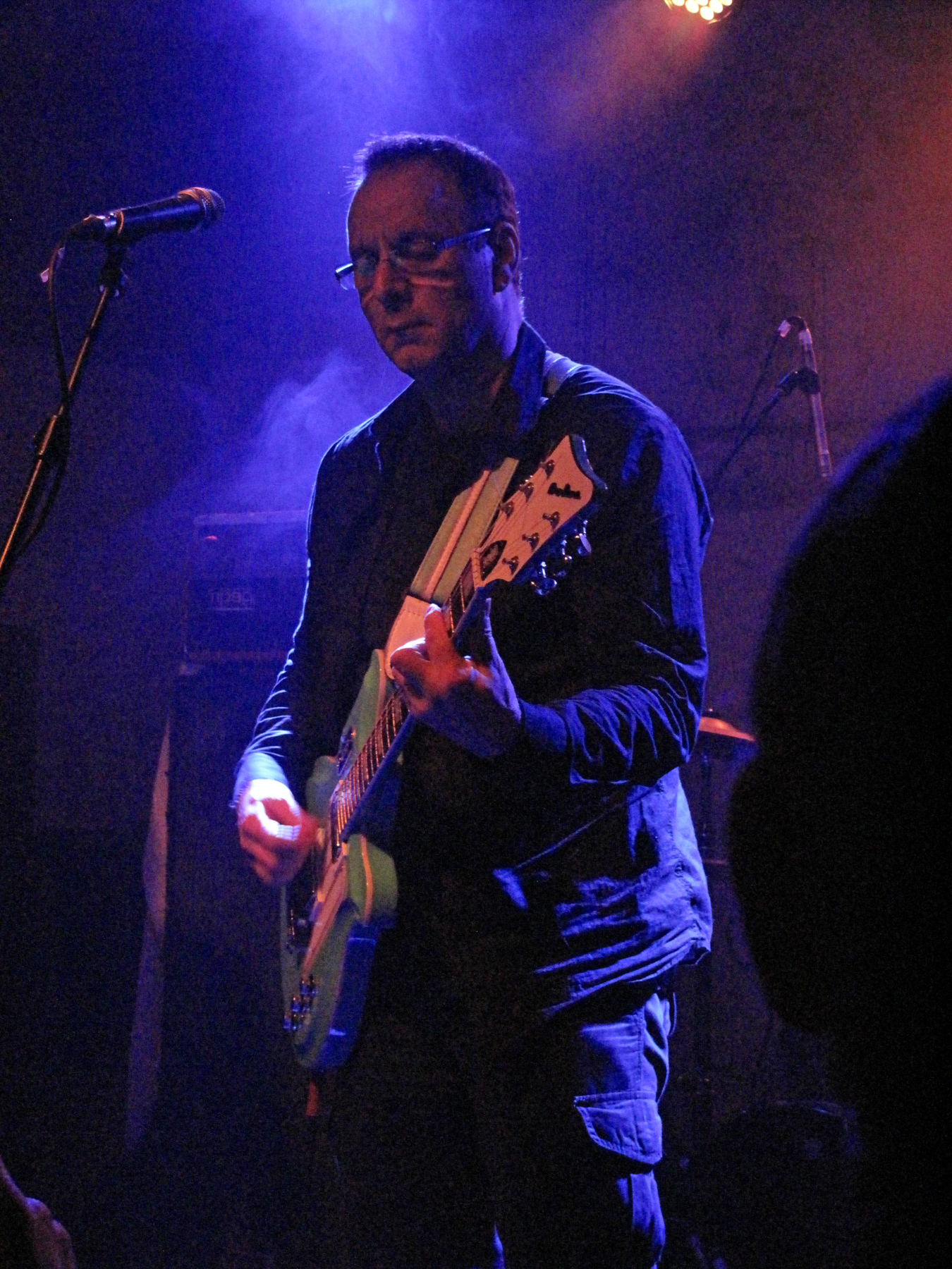 Colin Newman of Wire. XOYO, 23 nov 2011. Photo by Steve Speight.